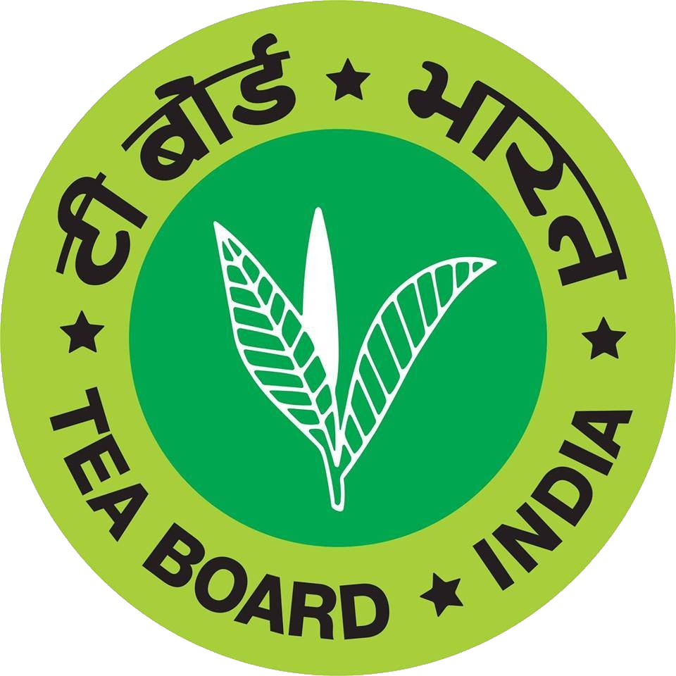 Tea Board of India is a state agency of the Government of India established to promote the cultivation, processing, and domestic trade as well as export of tea from India.